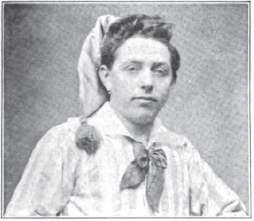 Portrait of Bernardo De Pace, from Music Trades magazine, November 22, 1919, page 43. De Pace was an Italian mandolinist who played before European royalty and immigrated into the United States in 1909 and became U.S. citizen in 1924. He toured the United States for years (roughly 1909-1920), ran his own opera company with his brother Nicolas and worked the vaudeville circuits. The photo was part of an advertisement for Lyon & Healy mandolins: "Thought he had orchestra_Bernardo De Pace puzzled San Francisco audience with Lyon & Healy mandolin__Chicago, Ill., Nov. 18. -- The accompanying portrait shows Bernardo De Pace, the eminent mandolinist who has been touring the vaudeville circuit of this country for the last seven years, in company with his brother the guitarist. Mr. De Pace has achieved great popularity here as well as abroad for his skill on the mandolin, and his technique, purity of tone, and amazing skill in double stops have attracted much attention. He uses the Lyon & Healy "Own Make Mandolin," of which he said recently: When I played my Lyon & Healy "Own Make Mandolin" lately at the Casino Theater, San Francisco, to an audience of four thousand people, it surprised me to hear that some of them were betting that I had an orchestra of mandolinists playing with me, behind the stage. Since I have used the Lyon & Healy instrument I have greatly increased my success at vaudeville performances and concerts."